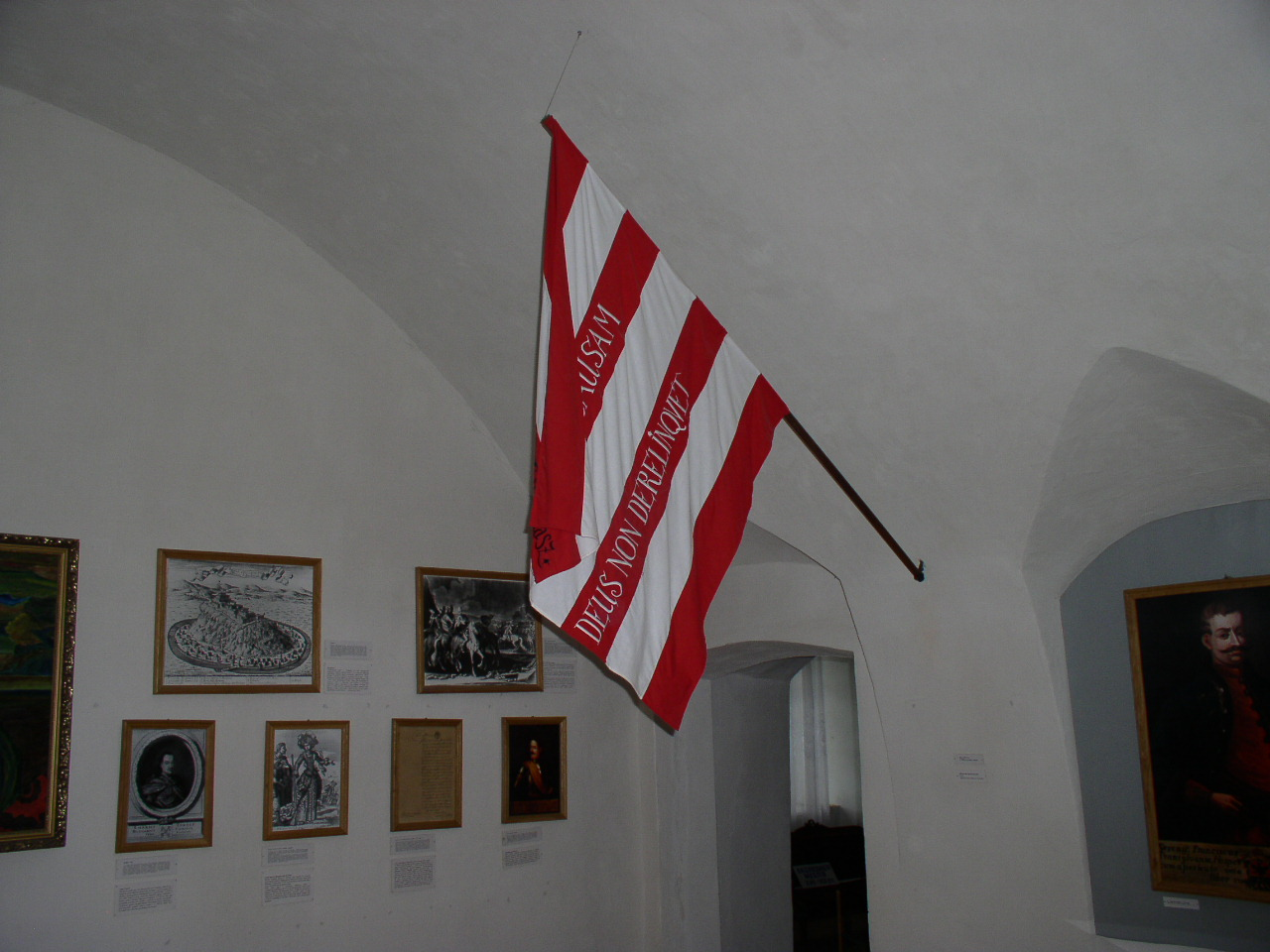 Museum exposition. Palanok сastle. Mukacheve, Ukraine.